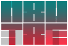 Abutre Netlabel's logo